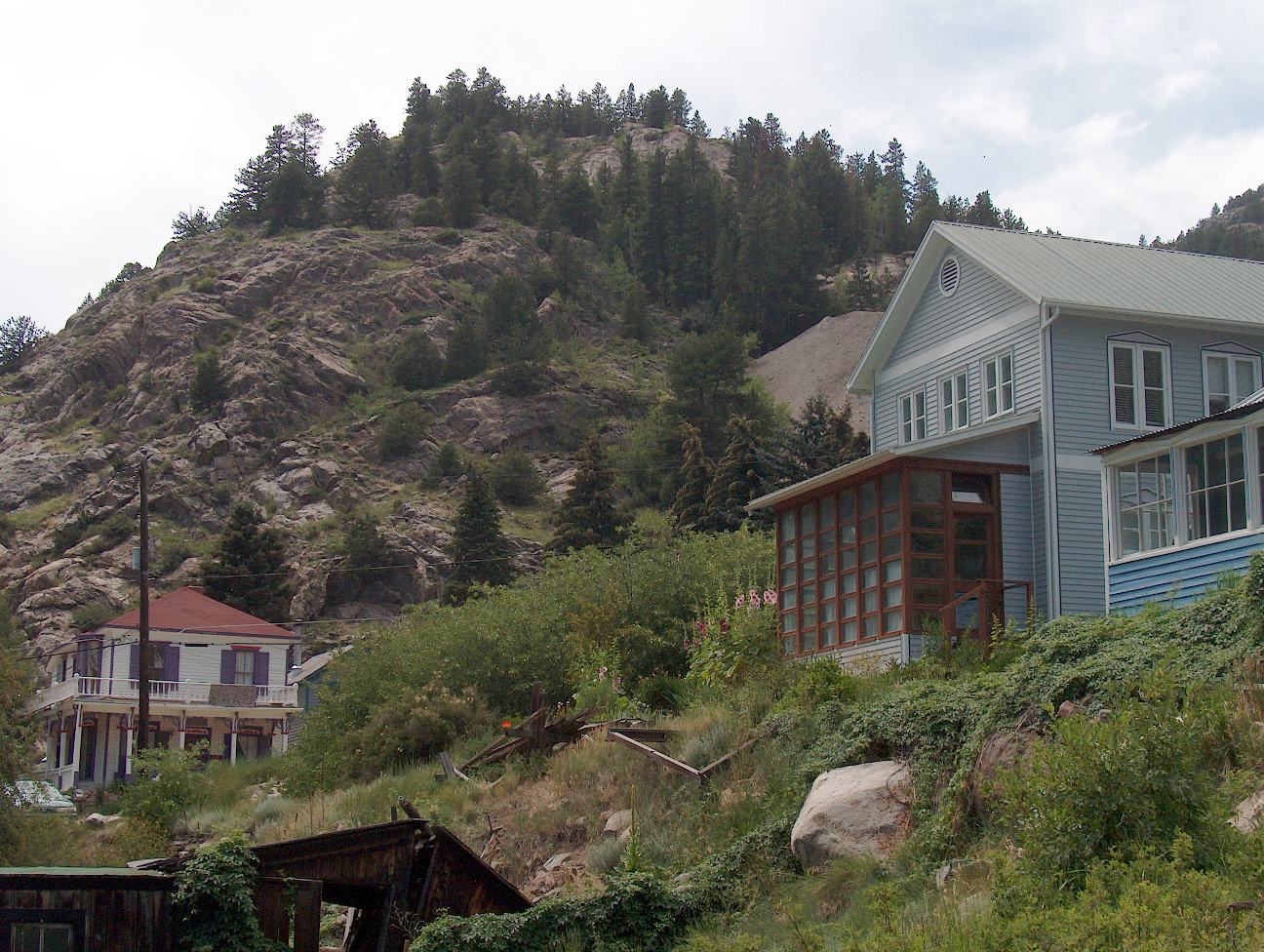 The town of Silver Plume, Colorado. Photo by Ken Gallager, July 29, 2006.